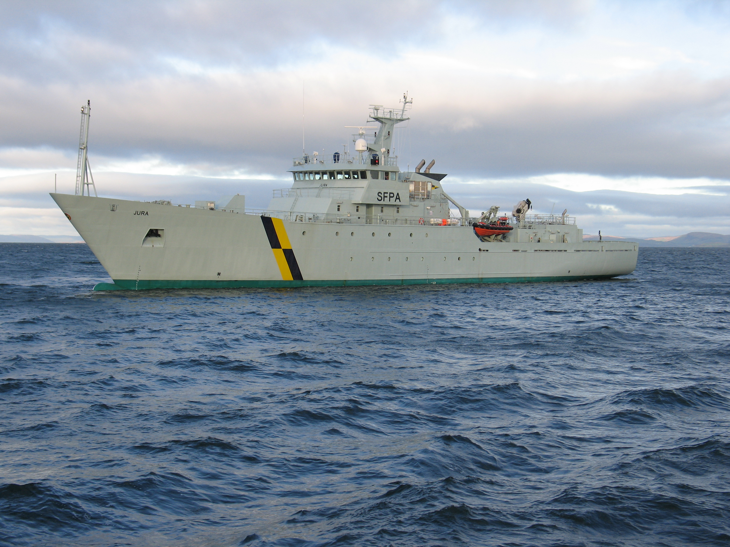 Fishery Protection Vessel, FPV Jura, in use by the Scottish Fisheries Protection Agency (SFPA). The vessel was constructed by Ferguson's Shipyard and entered service in 2006